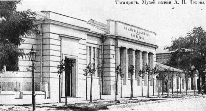 Taganrog Chekhov Library & Museum (built in 1911) by Fyodor Schechtel